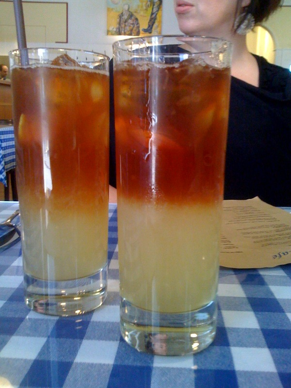 Arnold Palmer times two